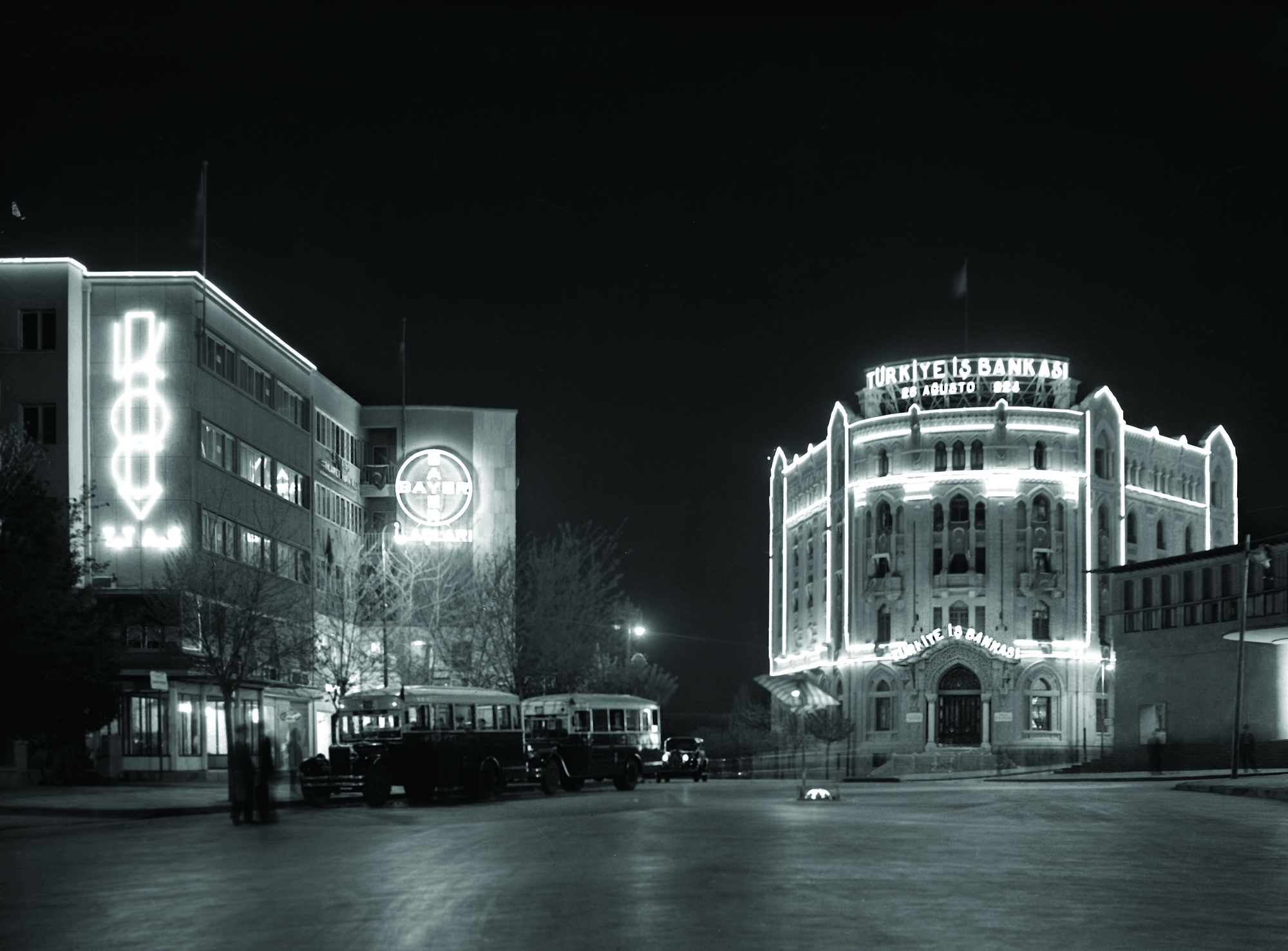 This photo was taken after 1941. This photo which was taken on a beautiful night shows the Ulus Square and Çankırı Street. The Directorate General of Türkiye İş Bankası (Turkey Business Bank) is the design of İstanbulite Giulio Mongeri who was also familiar with Ankara. Mongeri is also the architect of the buildings of Osmanlı Bankası (Ottoman Bank) and Ziraat Bankası (Agricultural Bank). Ulus Meydanı gece, 1940'lı yıllar 1941’den sonraki bir yılın fotoğrafı. Güzel bir gece fotoğrafında, Ulus Meydanı’nı, Çankırı Caddesi’ni seyrediyoruz. Binalar ışığa boğulmuş. Önlerinde, Samanpazarı durağında iki adet ABO. Henüz EGO yok, ABO, Ankara Belediyesi Otobüsleri var. Caddede üç dört kişi, otobüslerde yolcular. Bayraklar asılı. Bir bayram, 29 Ekim Cumhuriyet Bayramı’yla ilgili olabilir. Türkiye İş Bankası Genel Müdürlüğü, Ankara’nın yabancısı olmayan İstanbullu Giulio Mongeri’nin tasarımı. Mongeri daha önce Osmanlı Bankası, daha sonra Ziraat Bankası binalarının da mimarı. Çam Sokağı köşesinden Sümerbank da görülüyor. Çankırı Caddesi’ndeki Meydan Palas yıkılmıştır. Yerine yapılan binanın duvarında Koç Ticaret Türk Anonim Şirketi’nin ışıkla tanıtımı. Koç Han’ın yanında Halk Sineması yandıktan sonra yerine yapılan Park Sineması. Bayer İlaçları’nın reklâmı da ışık içerisinde.